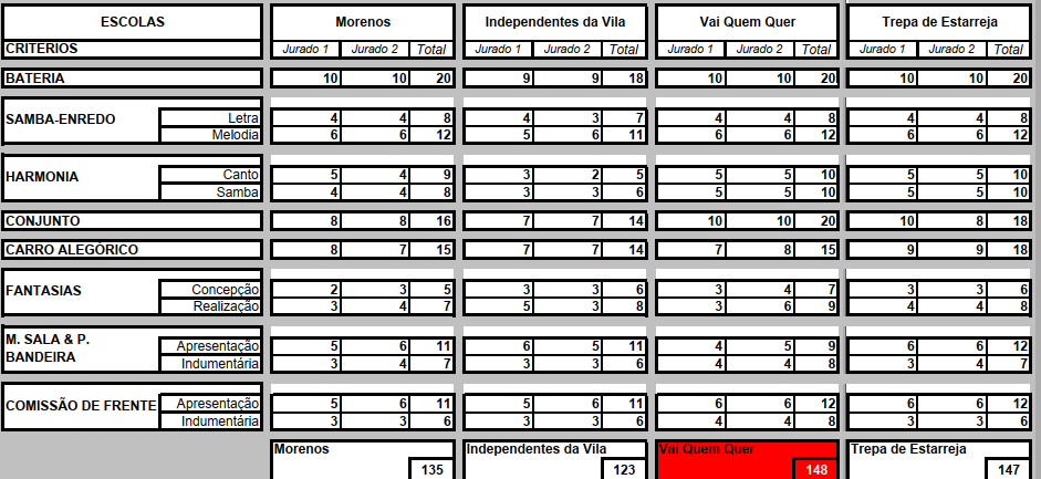 Results of Carnival of Estarreja in 2005